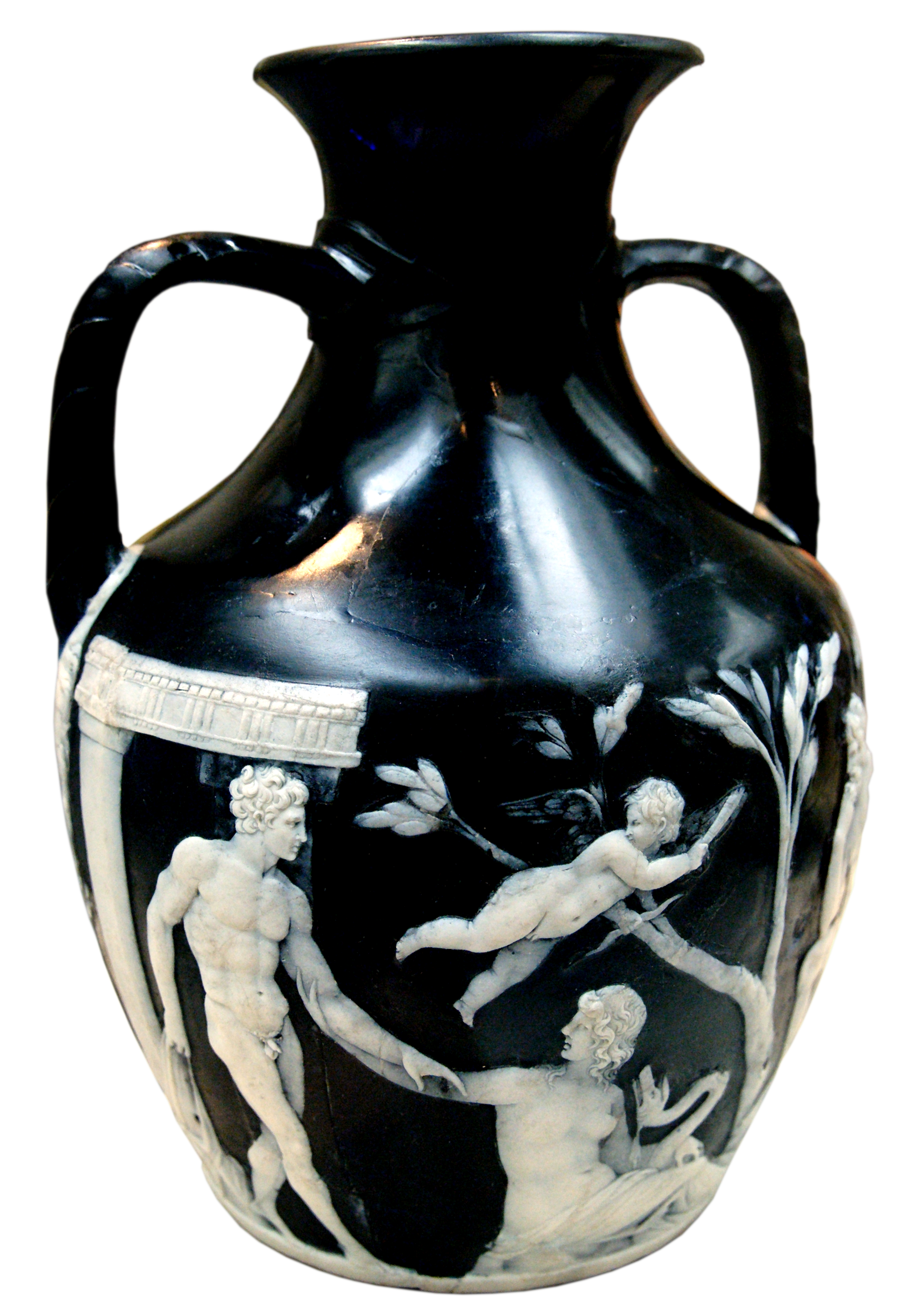 Scene 1 or Side A of the original Portland Vase, Cameo-glass, probably made in Italy ca. 5-25 CE. From the British Museum. The original image was photographed and uploaded by Marie-Lan Nguyen (user:Jastrow) This version of the image was resized for deeper dpi, white-balanced, and the background changed to white by Kathleen Vail (user:AishaAbdel).